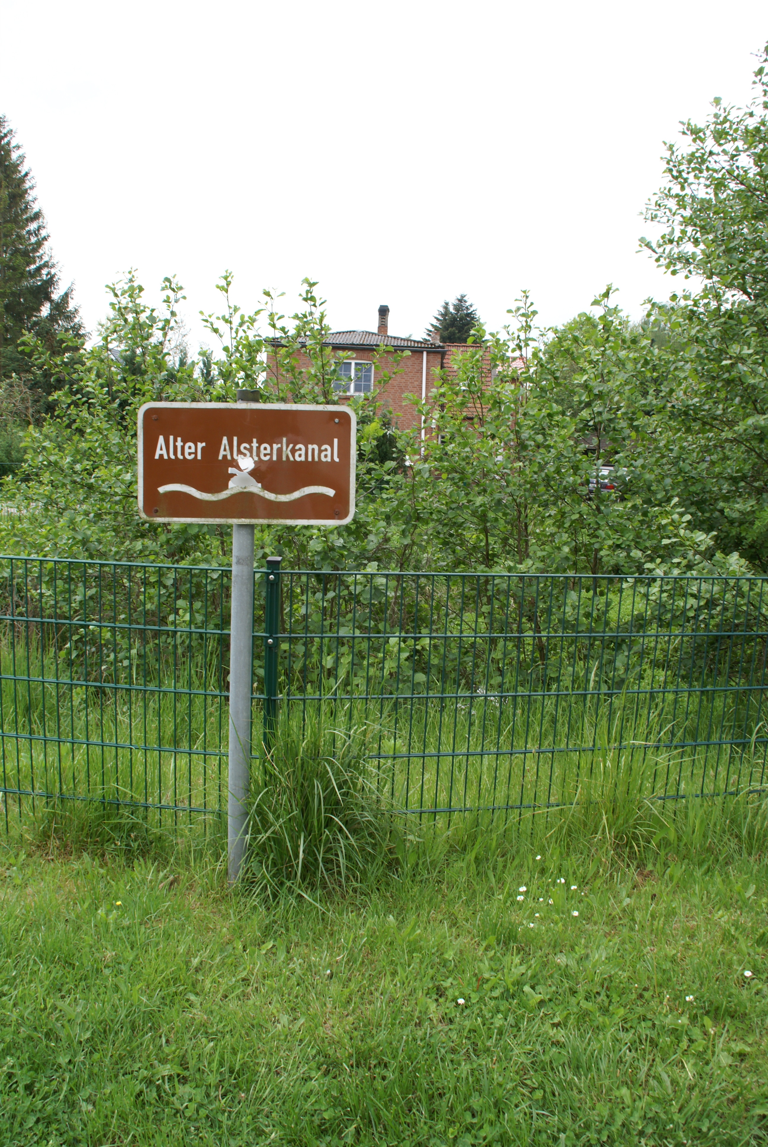 Sülfeld, Germany: Plaque at bank of the old Canal Alster-Trave